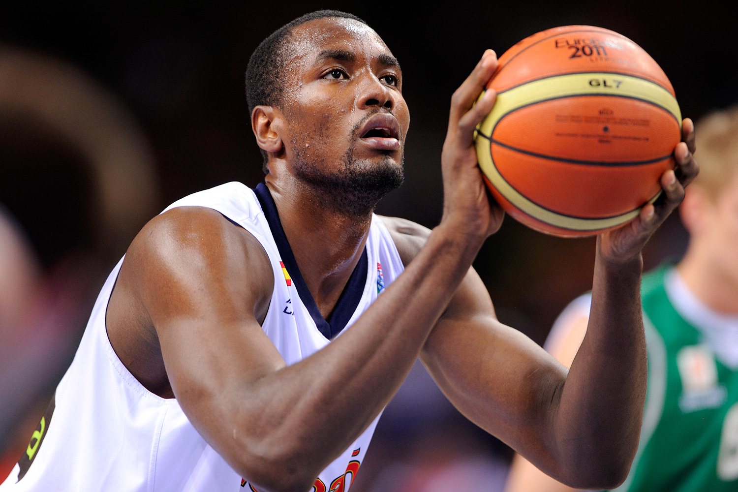 Serge Ibaka during EuroBasket 2011